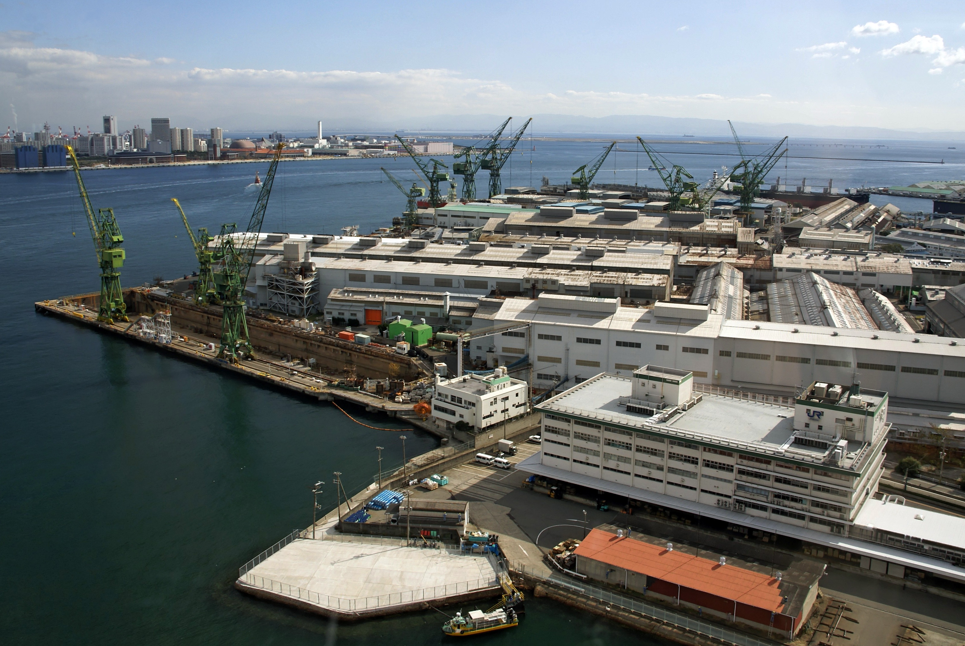 Kawasaki Shipbuilding Kobe Shipyard & Machinery Works of Kobe Harbor in Kobe, Hyogo prefecture, Japan